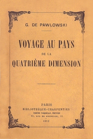 Cover of the first edition of Voyage au pays de la quatrième dimension by Gaston de Pawlowski